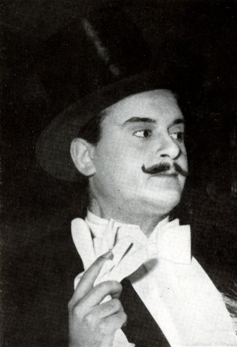 screenshot from Cineguida 1953